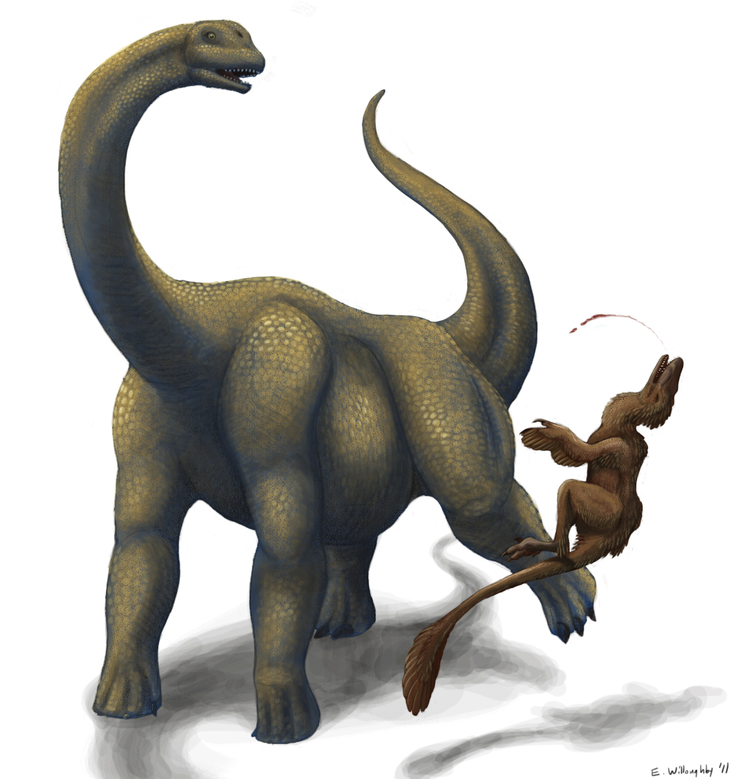 Illustration of Brontomerus loosely based off the official reconstruction by Francisco Gascó. Here Brontomerus is using its unusually massive abductor muscles to "hip check" an attacking dromaeosaur in a lateral kick.